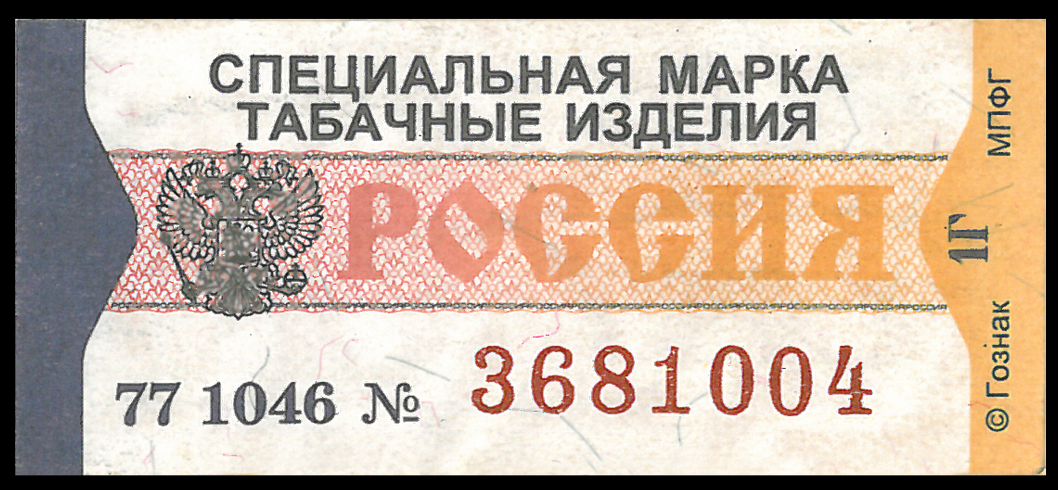 Cigarettes federal excise stamp of Russia, 1999